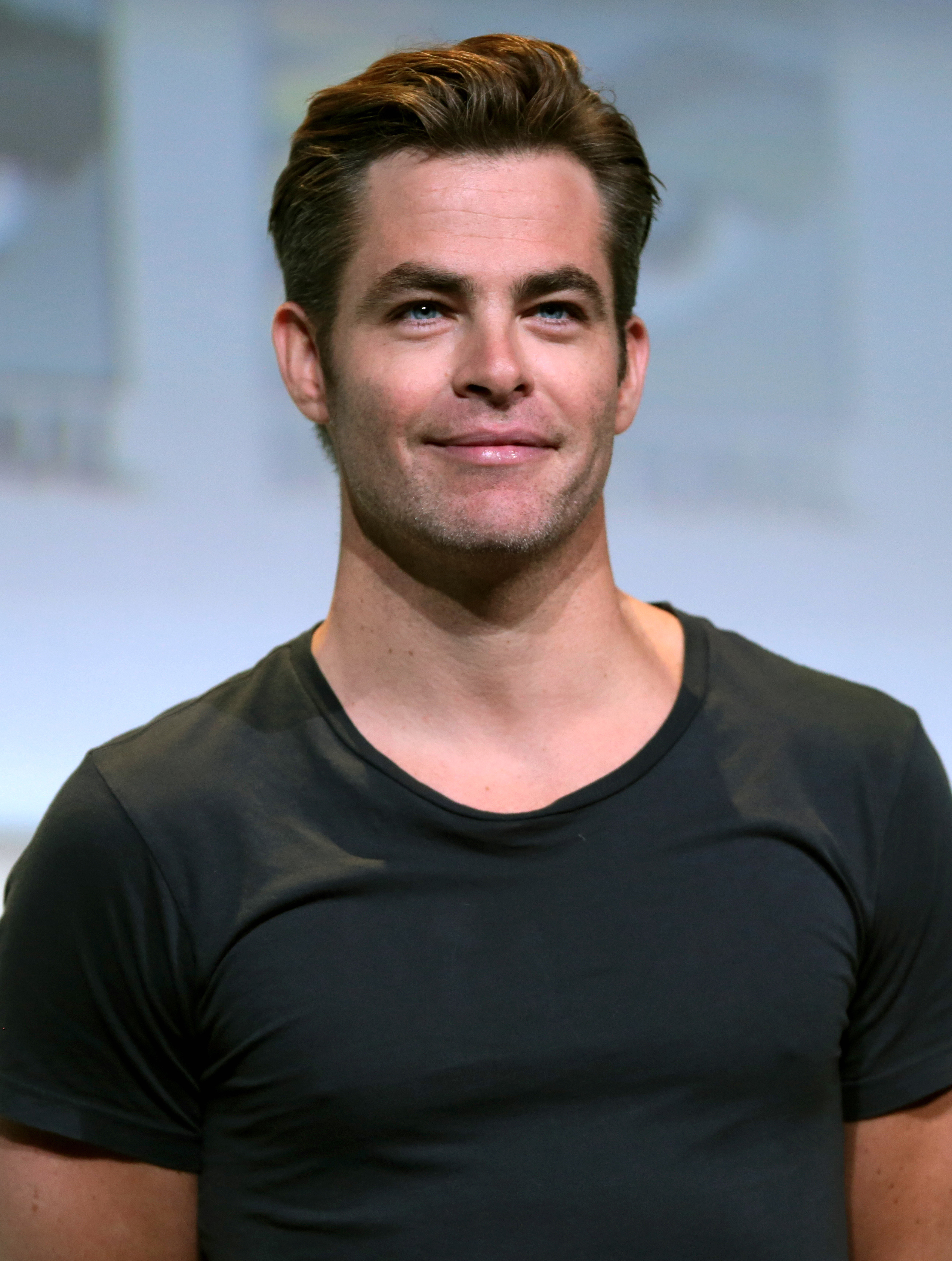 Chris Pine speaking at the 2016 San Diego Comic-Con International in San Diego, California.